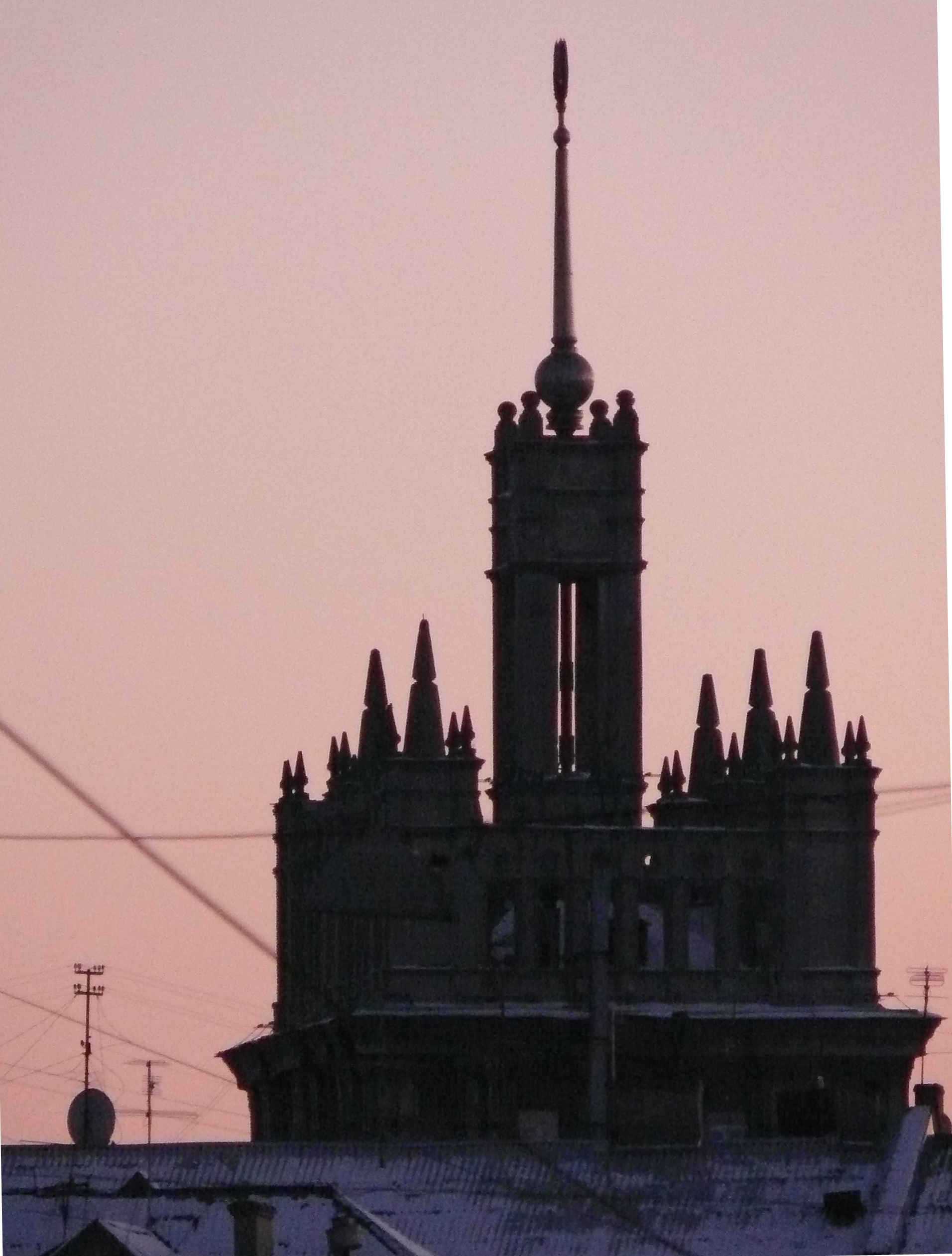 Kharkov